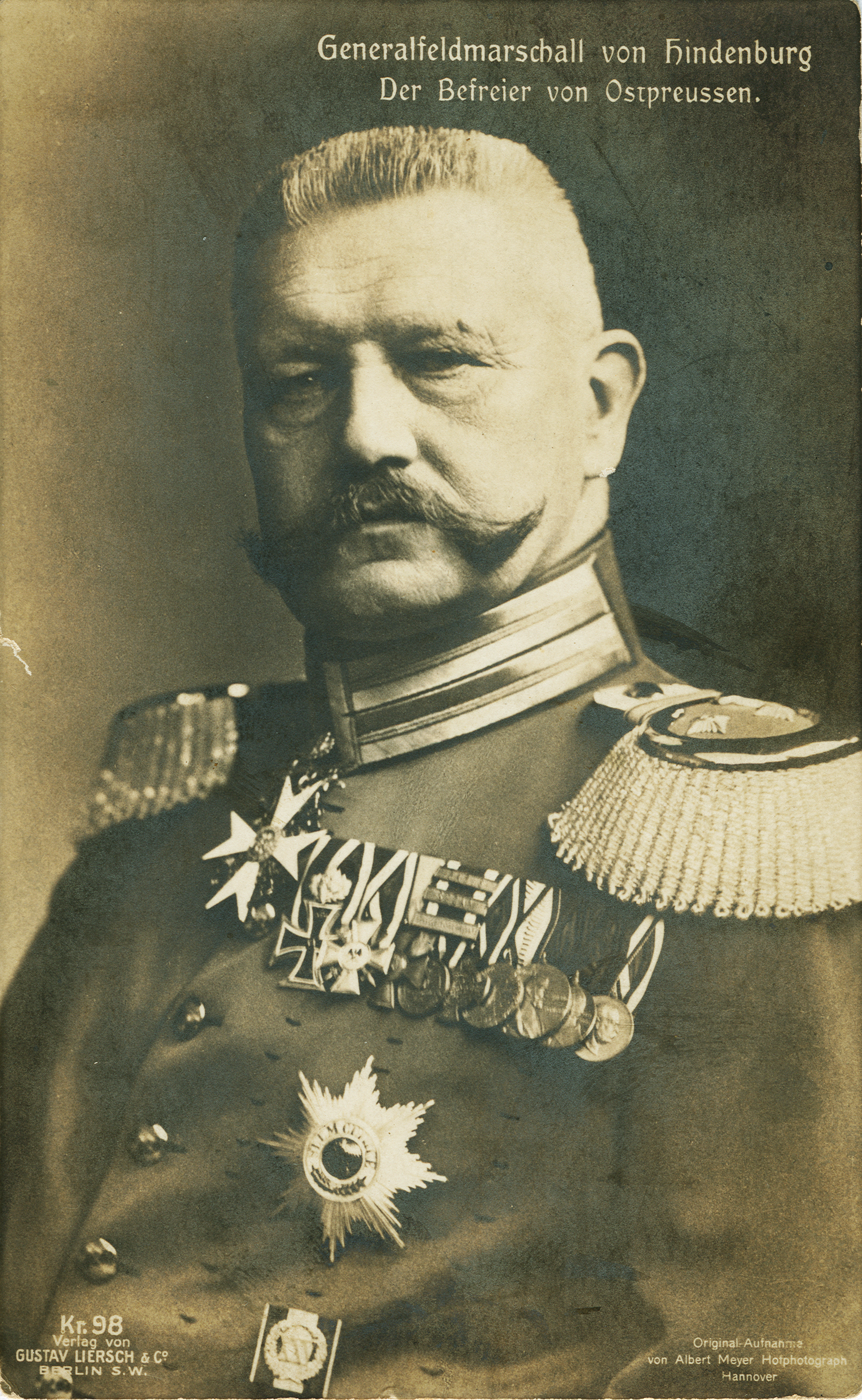 Generalfeldmarschall von Hindenburg / The liberator of East Prussia. Kr. 98 Publishing Company Gustav Liersch & Co. Berlin S.W. / After a photograph originally by photographer of the court Albert Meyer Hanover